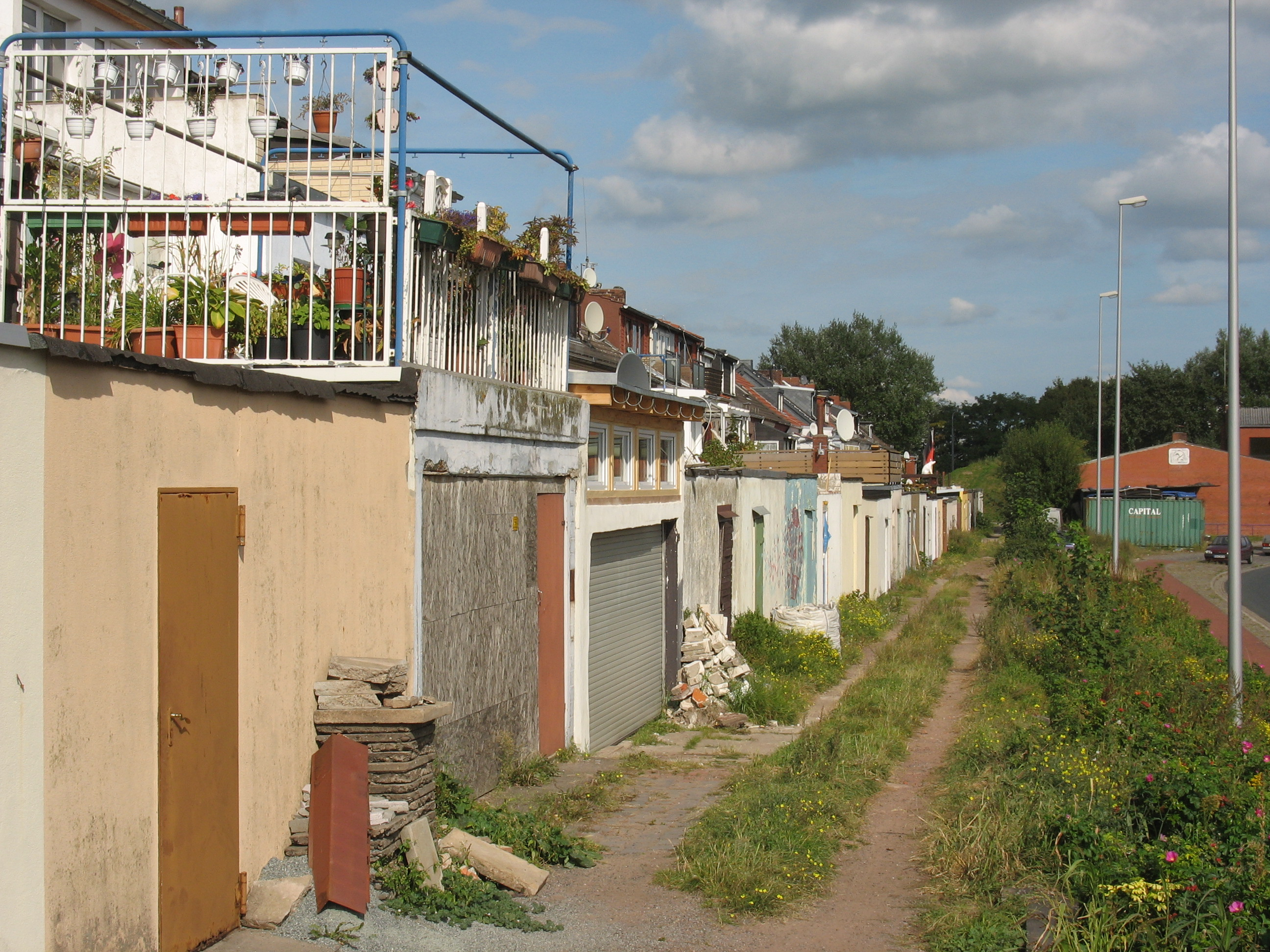 Waller Wied, Heimatstraße / rear side, Bremen